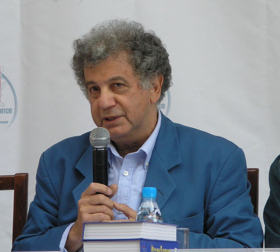 The Russian writer Aleksandr Kurlyandsky (or Alexander Kurlyandsky, Александр Курляндский) at a press conference at Moscow Zoo on the upcoming premiere of the 19th and 20th episode of the animated series Nu, pogodi! Their production was funded by the discount grocery store chain Pyaterochka. Among other things, Kurlyandsky is known as a screenwriter of animated films and was involved in the production of all episodes of Nu, pogodi!